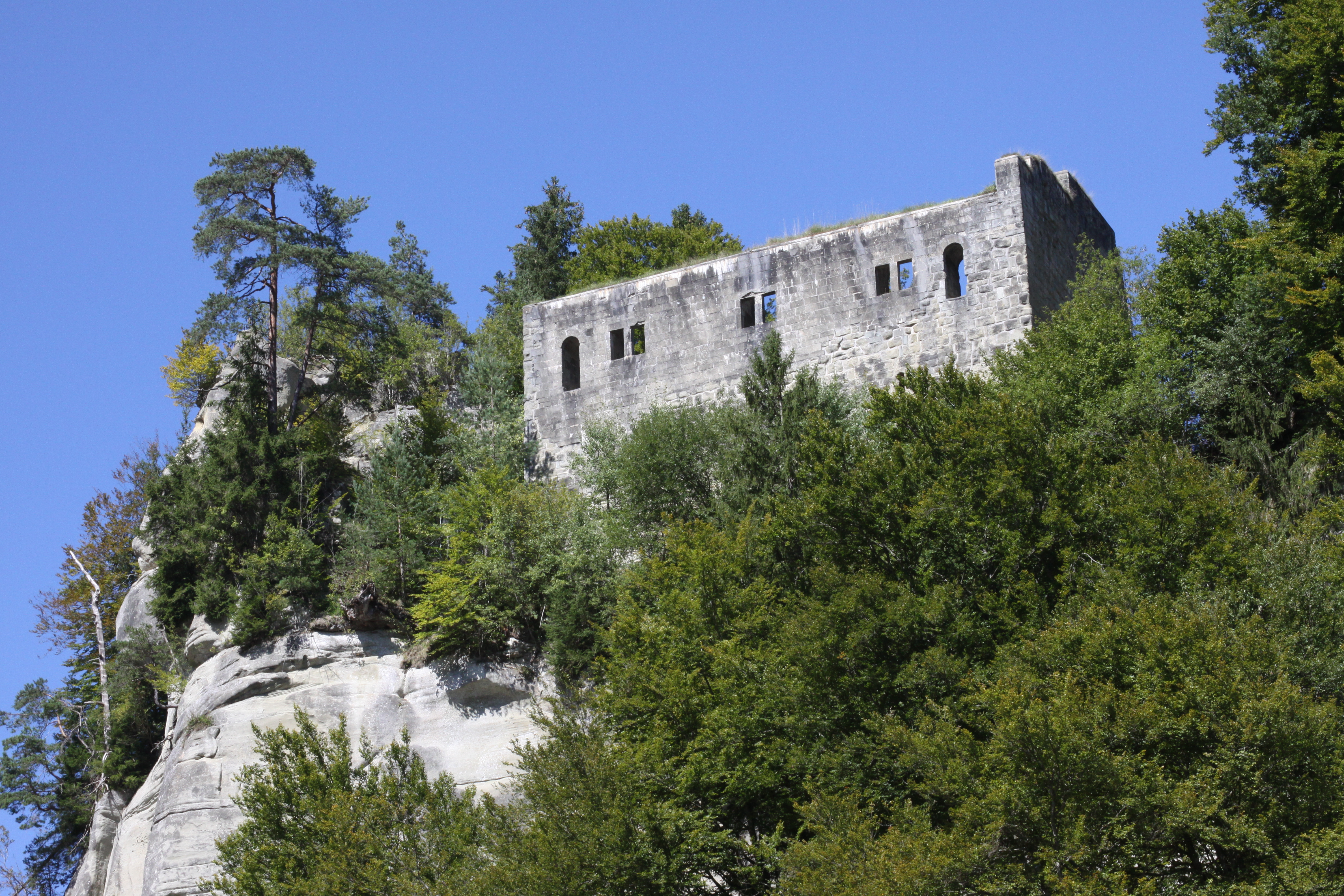 Grasburg Ruins, View from the edge of the Sense River, Wahlern